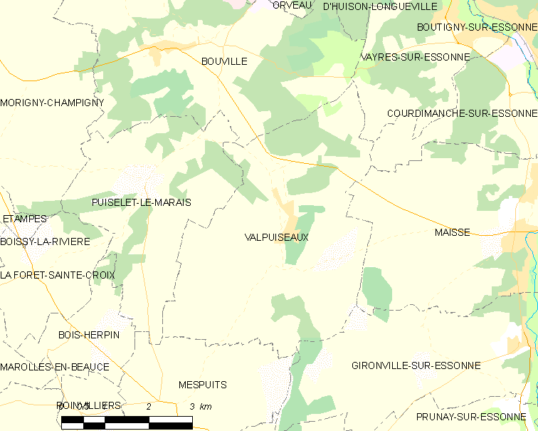 Map of French municipality Valpuiseaux